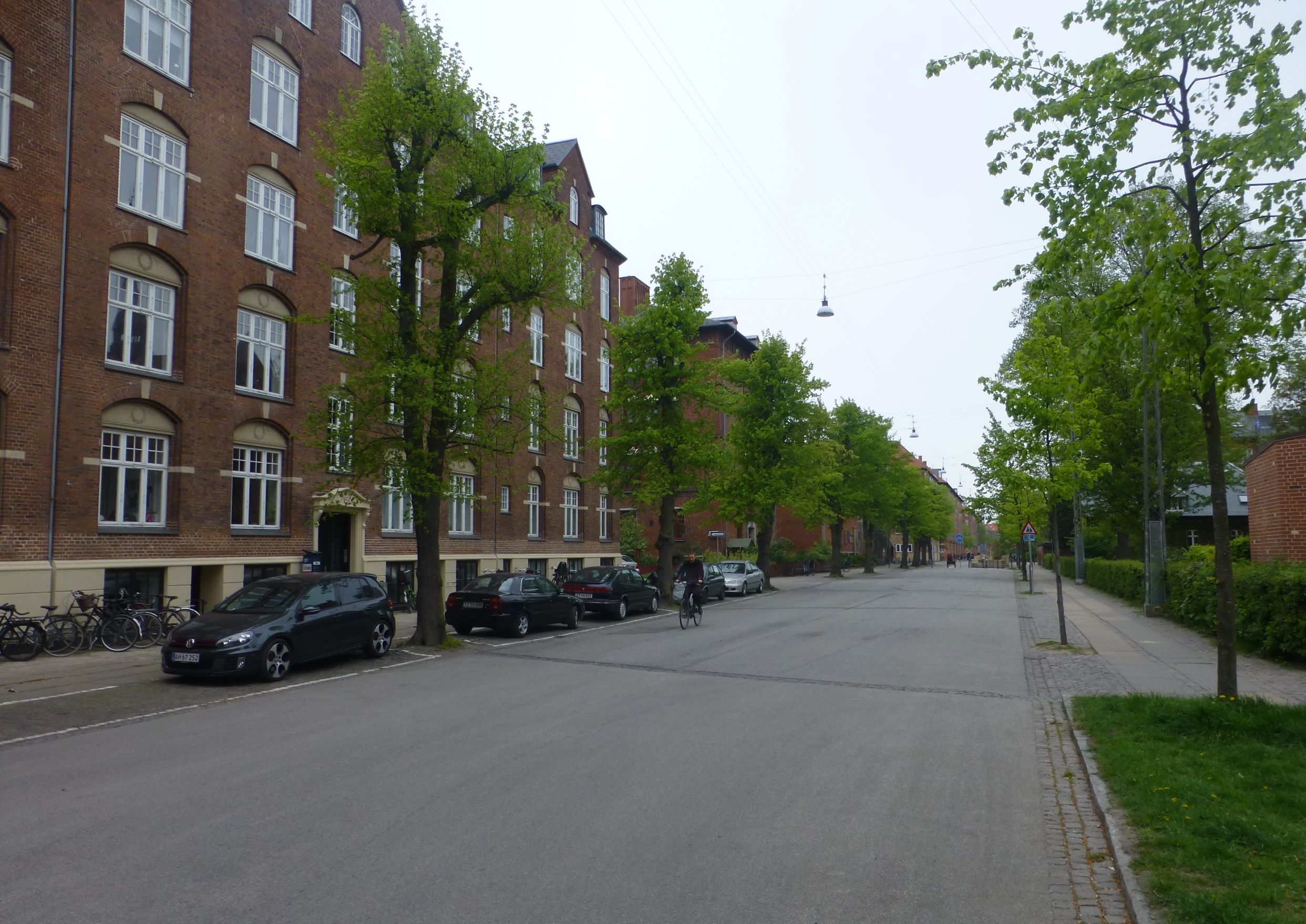 The street Hans Tavsens Gade in Nørrebro in Copenhagen.